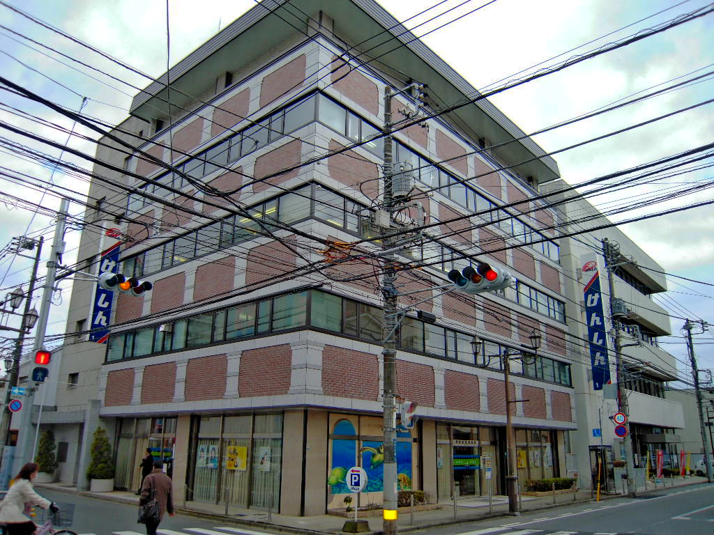 Ibarakiken Credit Cooperative head store.